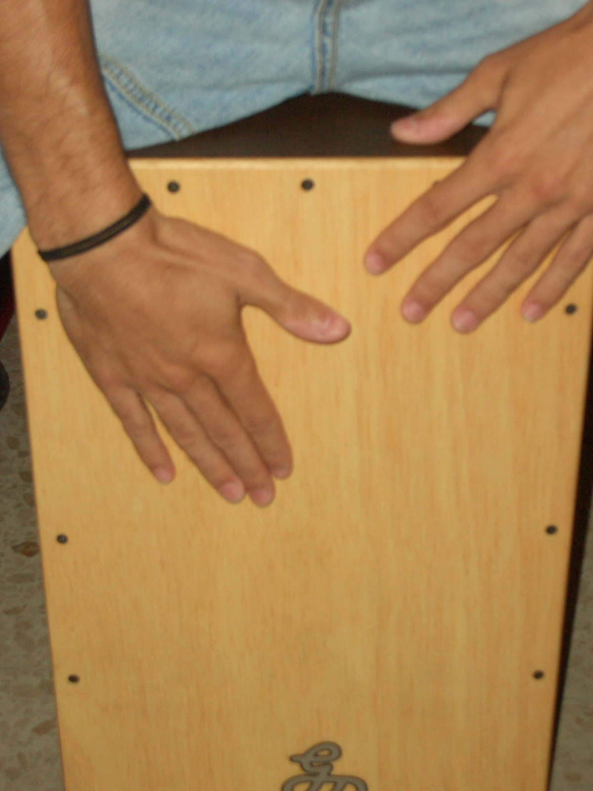 Cajón player demonstrating typical hand positions on a flamenco cajón.